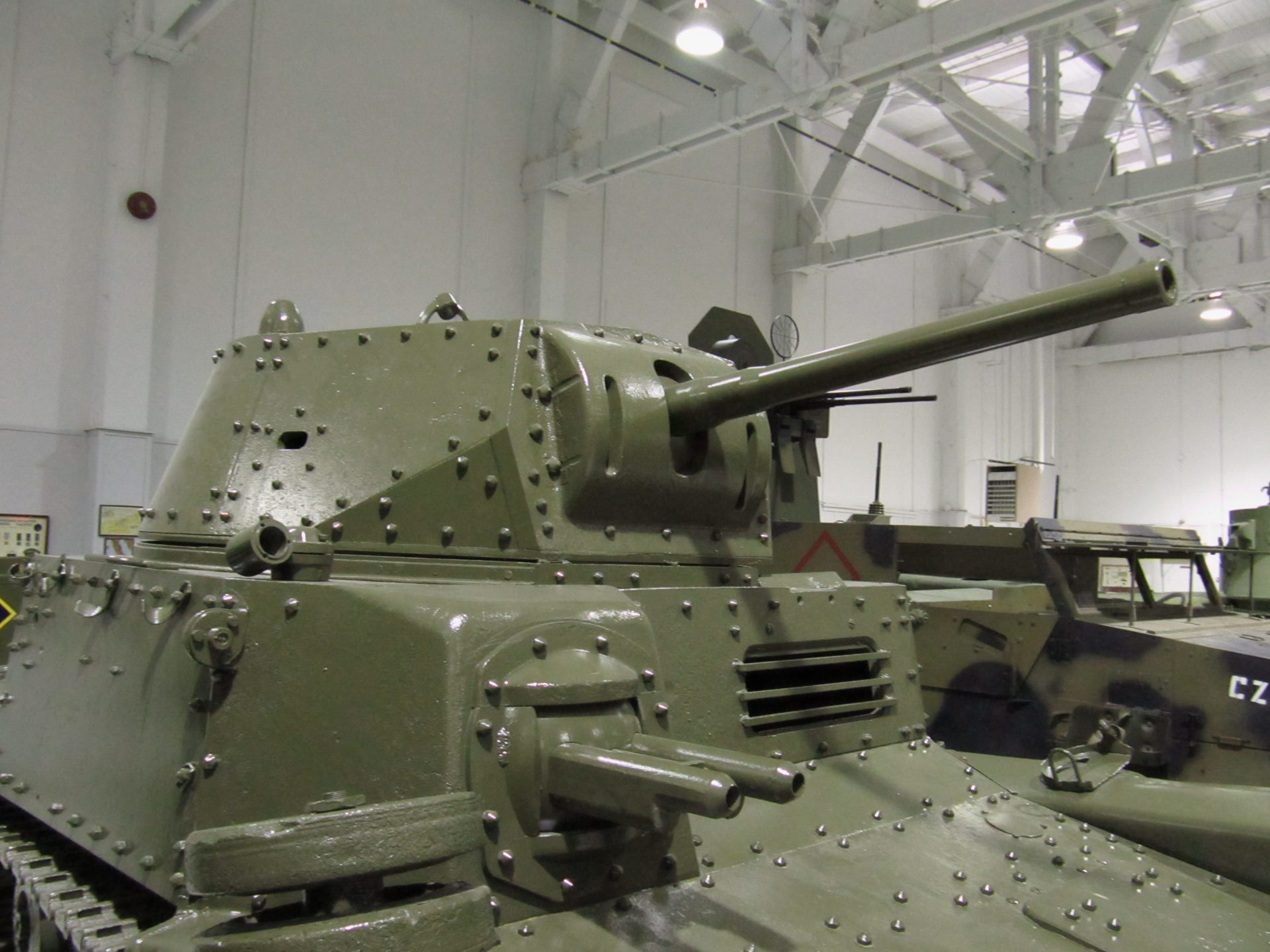 Italian M13/40 light tank at Base Borden Military Museum